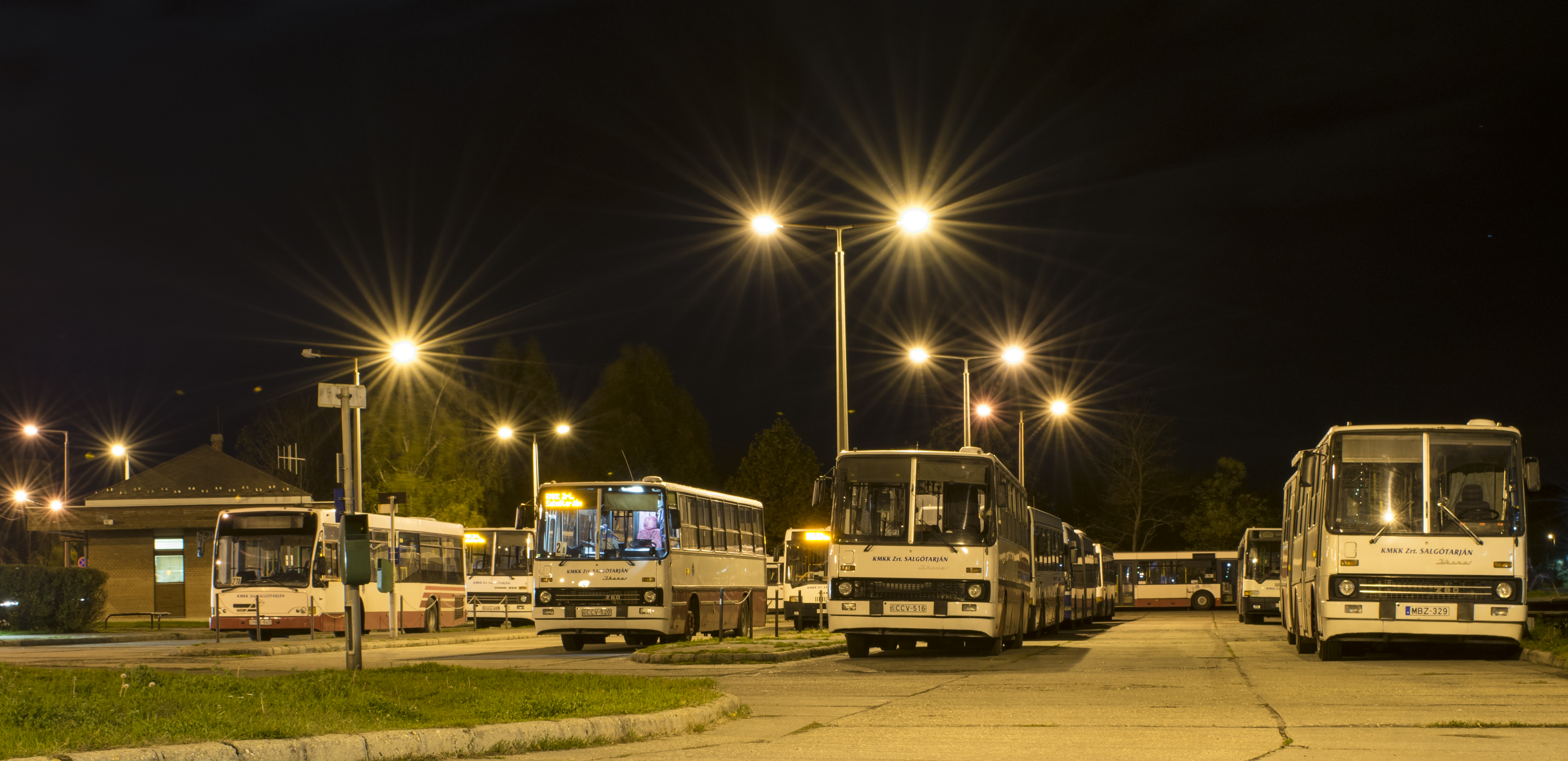 Salgótarján, Local Bus Station